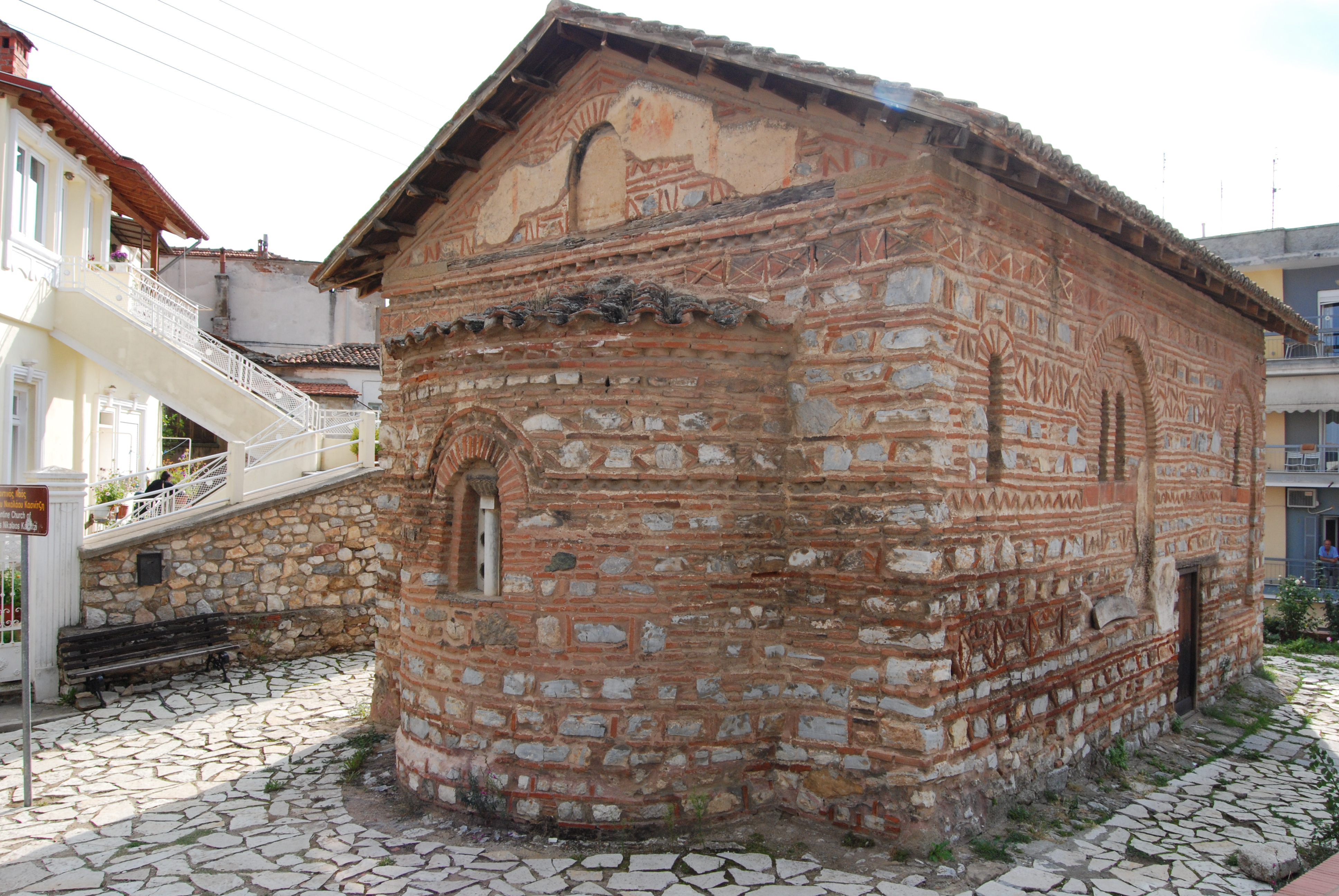 Church of Agios Nikolaos Kasnitzi, Kastoria, Greece.